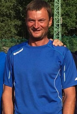 Алекса́ндр Влади́мирович Во́лков